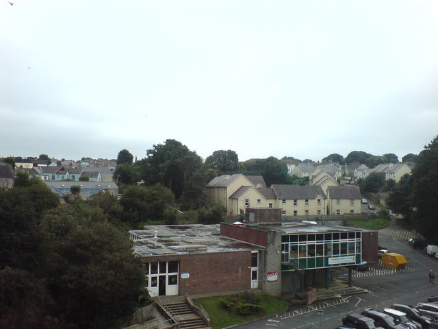 The old Pembrokeshire College. Situated between Dew St and Barn St. It is now a community centre. Barn Court can be seen behind.